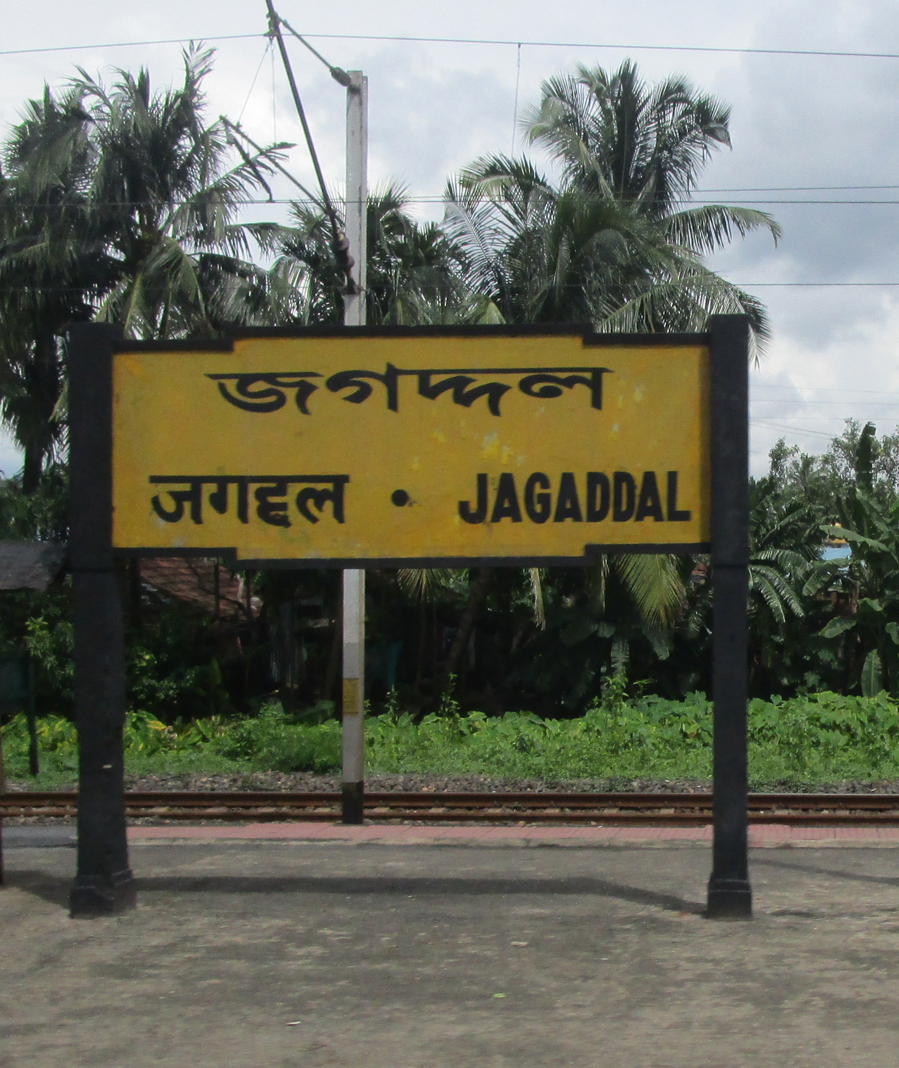 Jagaddal railway station